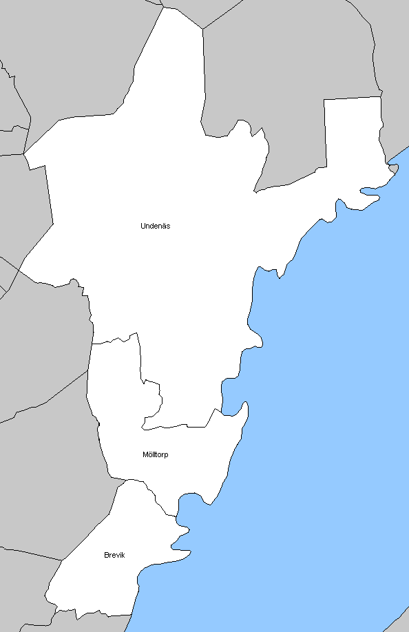 Parishes in Karlsborg's municipality